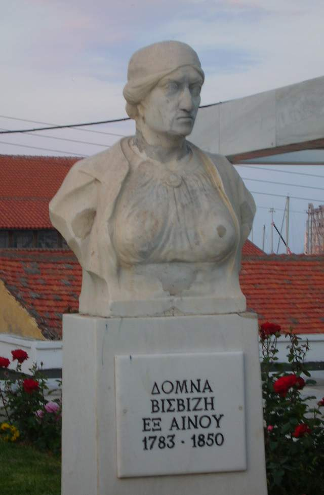 Domna Bizbizi's monument